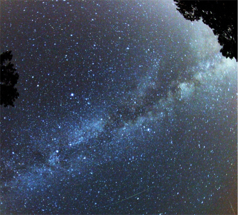 A green and red Perseid meteor striking the sky just below Milky Way. The trail appears slightly curved due to edge distortion in the lens